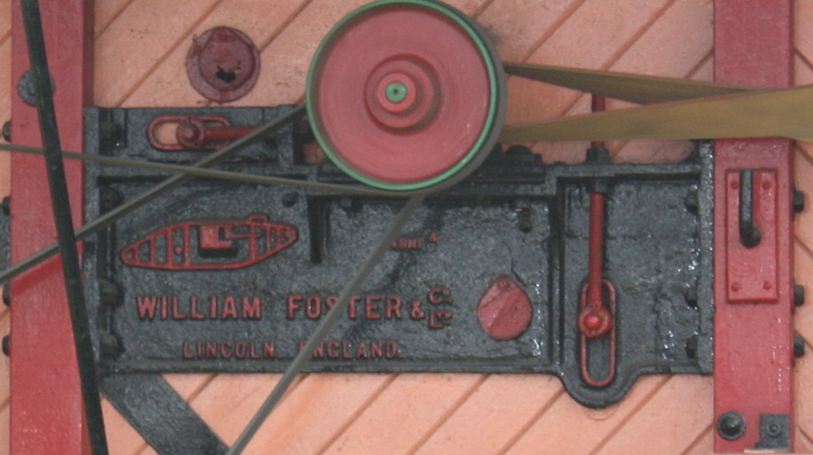 Fosters used the Tank symbol on some of their later machinery like this casting for a Threshing machine built after the 1st world war.